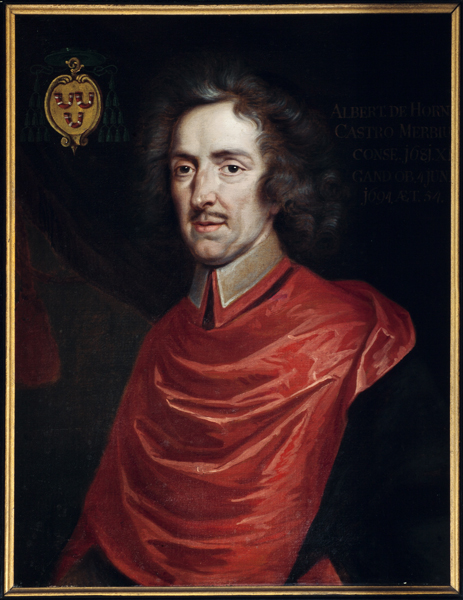 Sint-Baafskathedraal, Gent, Oost-Vlaanderen, Belgium. Cathedral collections. Portrait of bishop Albertus de Hornes. Painting. Oil on canvas. 17th century. Inv 499/12. . photo: Paul M.R. Maeyaert. . © Paul M.R. Maeyaert; . Original colour transparency 6x7cm. . Cultural heritage; Cultural heritage|Monuments|Cathedral; Cultural heritage|Techniques|Painting; Europe|Belgium; Europe|Belgium|Oost-Vlaanderen; Europe|Belgium|Oost-Vlaanderen|Gent; Europe|Belgium|Oost-Vlaanderen|Gent|Sint-Baafskathedraal. . Inv 499 PORTRETTEN VAN DE BISSCHOPPEN VAN GENT, XVIde tot XXste eeuw; nrs. 1 tot 5 op paneel, de andere op doek, 70 cm x 53 cm. 499/12. ALBERT DE HORNES / CASTRO MERBIUS. / CONSE J68J XII GAND OB 4 JUNII / J694 AET. 54. Inventaris van het Kunstpatrimonium van Oost-Vlaanderen, V: Sint-Baafskathedraal, Gent; door Dr Elisabeth Dhaenens, 1965. . . Ref: PMa_001042_B_Gent_StB.jpg.